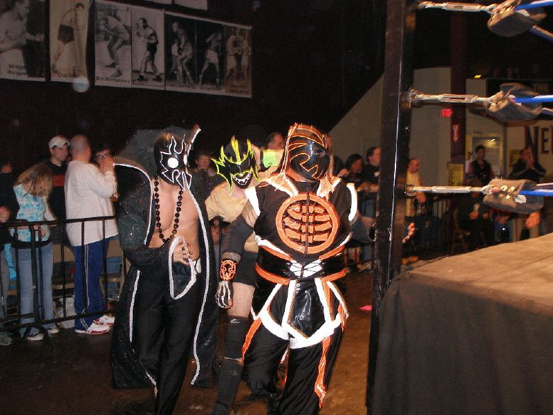 Professional wrestling stable the Order of the Neo-Solar Temple at Chikara's 2008 King of Trios